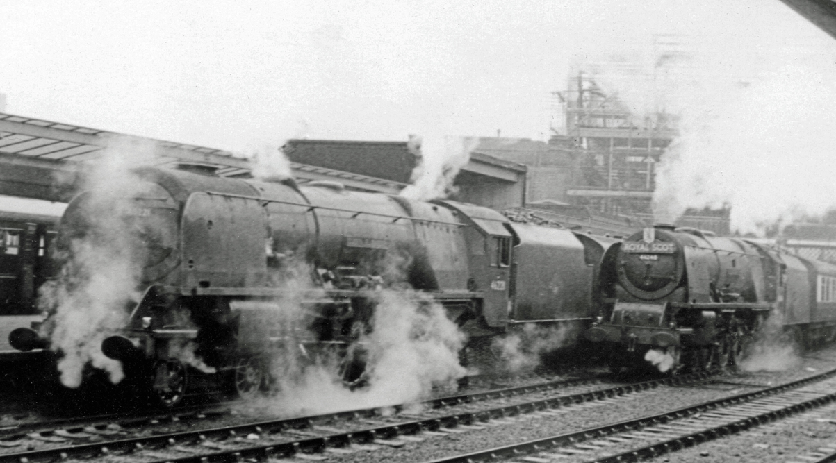 Princess Coronation Class locomotives changing over on the "Royal Scot" train at Carlisle in 1958. 46221 "Queen Elizabeth" (left) and 46240 "City of Coventry" (right).